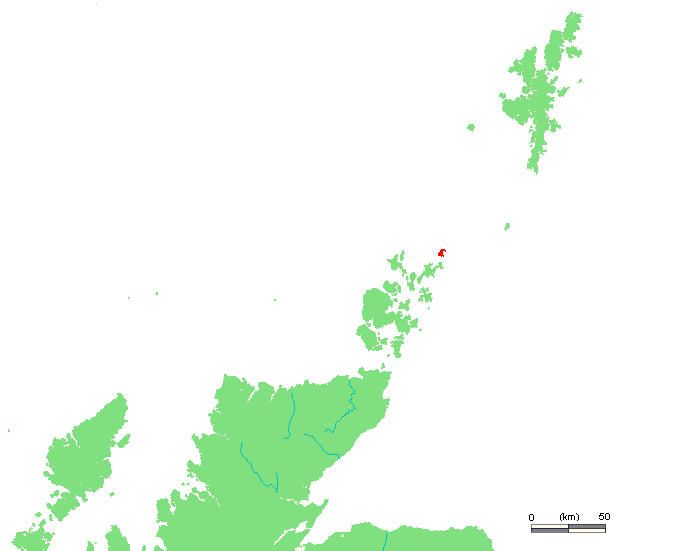 VK North Ronaldsay.PNG (Orkney and Shetland islands, UK)